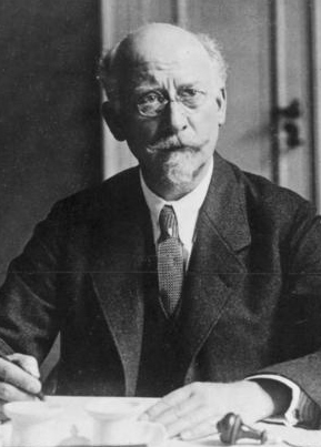 Cropped portrait of German Chancellor, Phillip Scheidemann